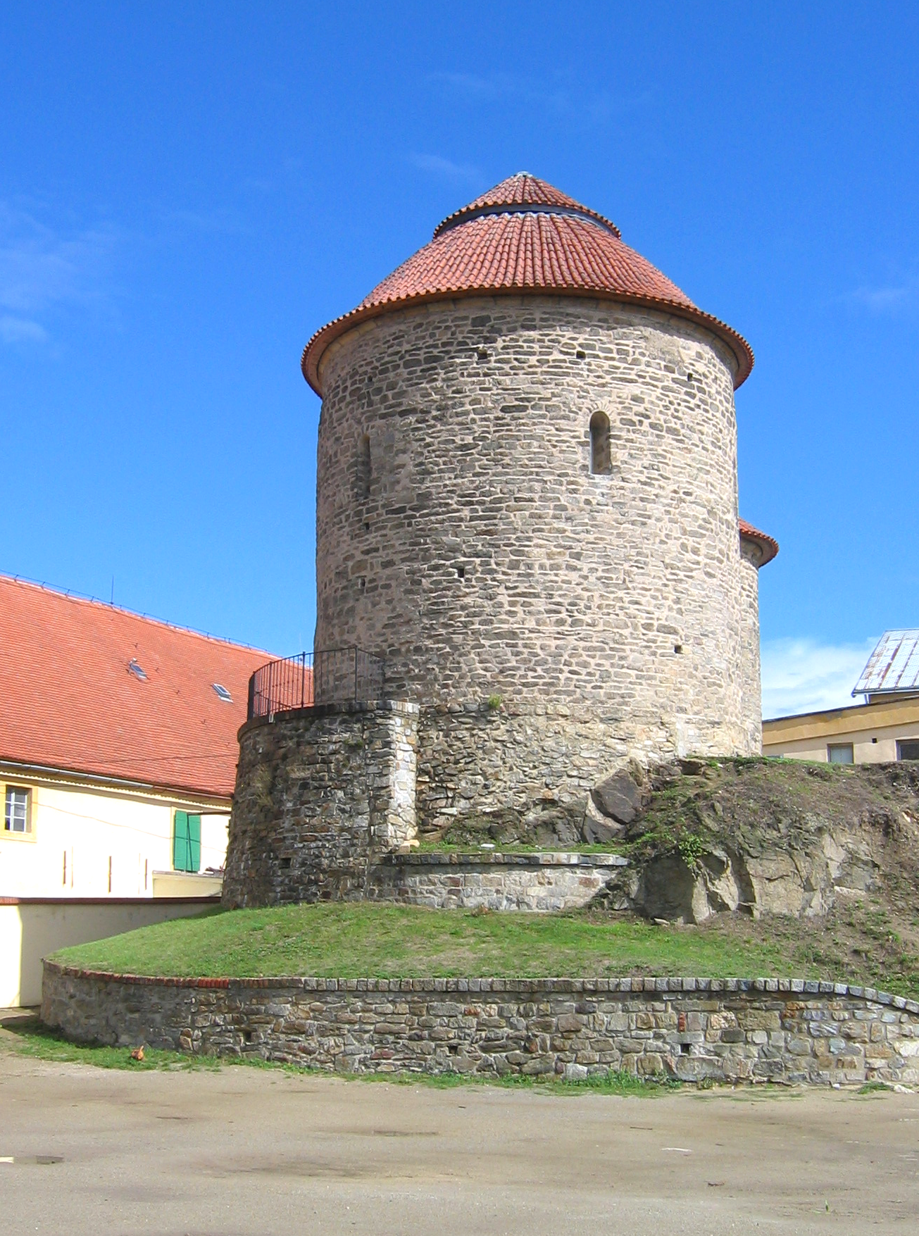 Rotonda Our Lady and St. Catherine, Znojmo